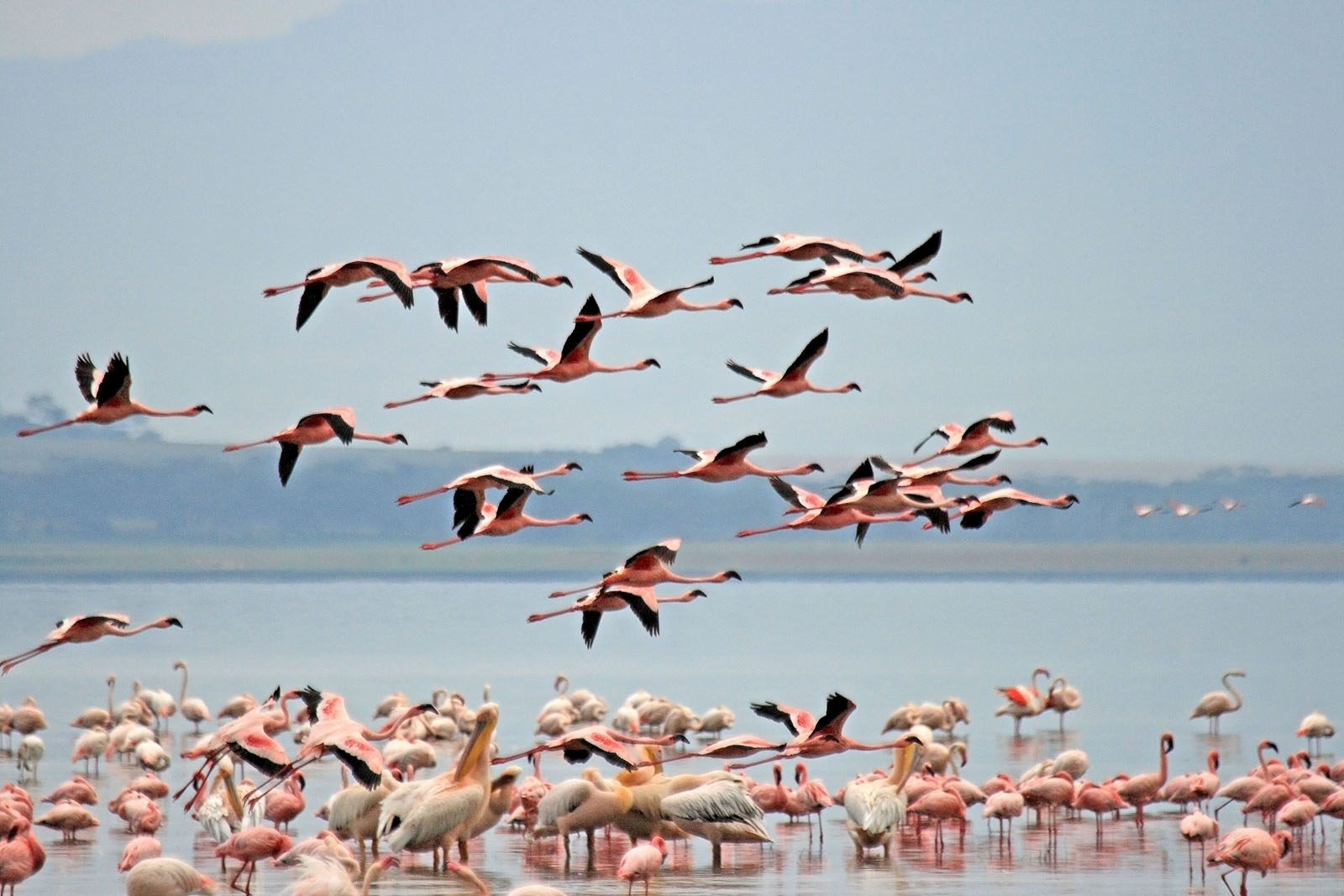 Flamingoes (Phoenicopterus minor) in Lake Nakuru National Park, Kenya